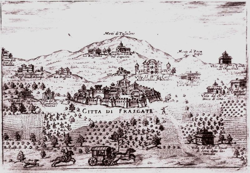 Frascati map, beginning of 1600, note the wineyards immediately beneath the town, and Tusculum on top of the hill